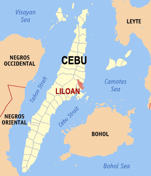 Map of Cebu showing the location of Liloan